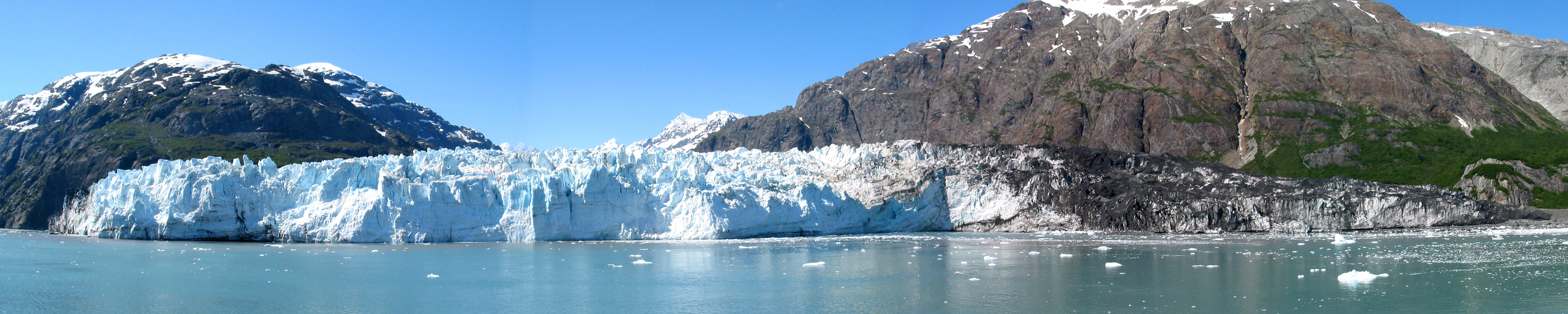 Margerie Glacier, Glacier Bay National Park and Preserve, Alaska, USA Modified copy of public domain photo from Wikimedia Commons linked below as 'Source': rotated clockwise to level horizon cropped corners and bottom decreased brightness increased contrast increased saturation sharpened slightly with 'unsharp mask'